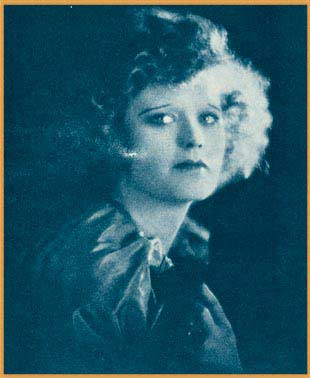 Publicity photo of Juanita Hansen from Who's Who on the Screen